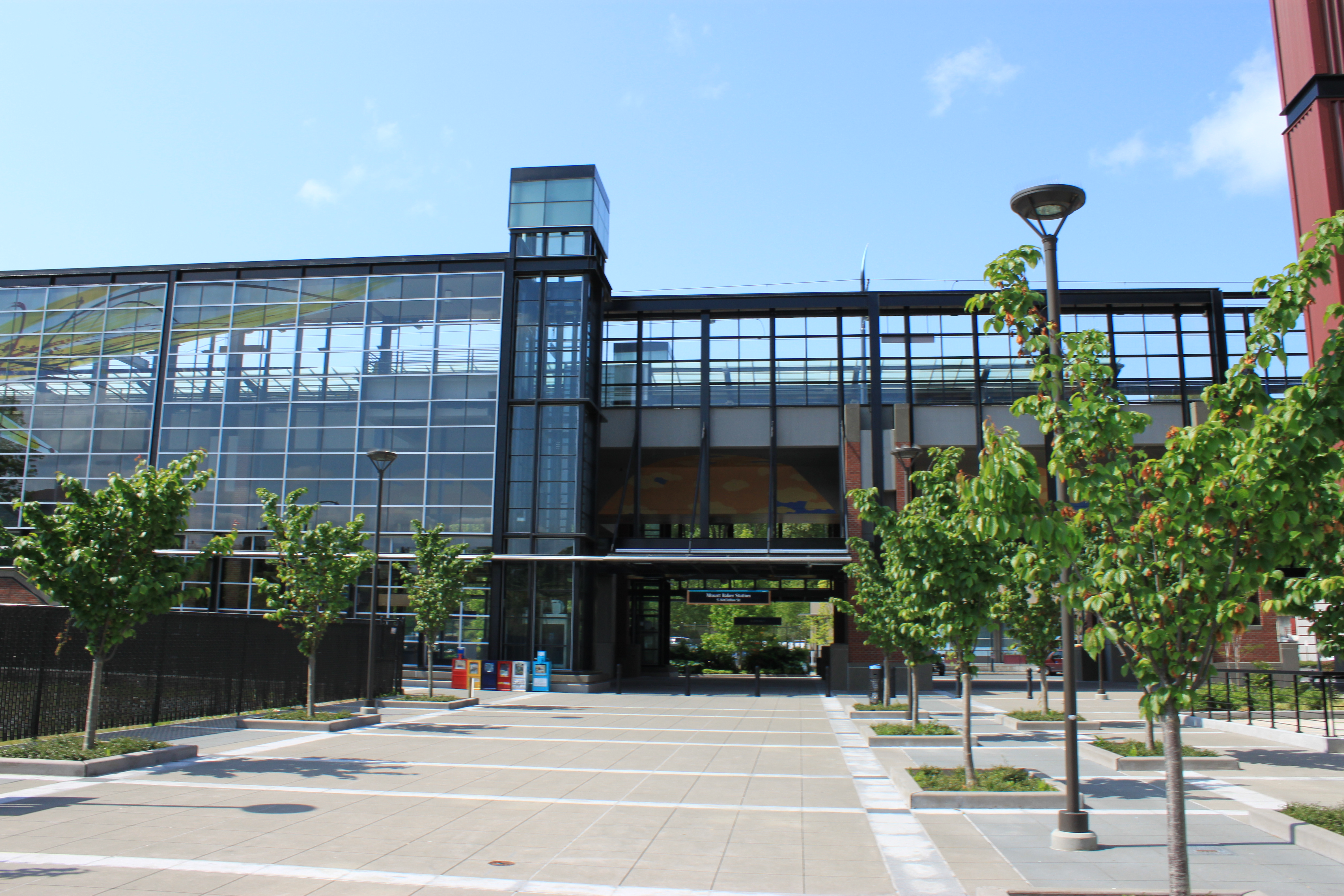 The east side of Mount Baker Station, viewed from the west sidewalk of Martin Luther King Jr. Way South.